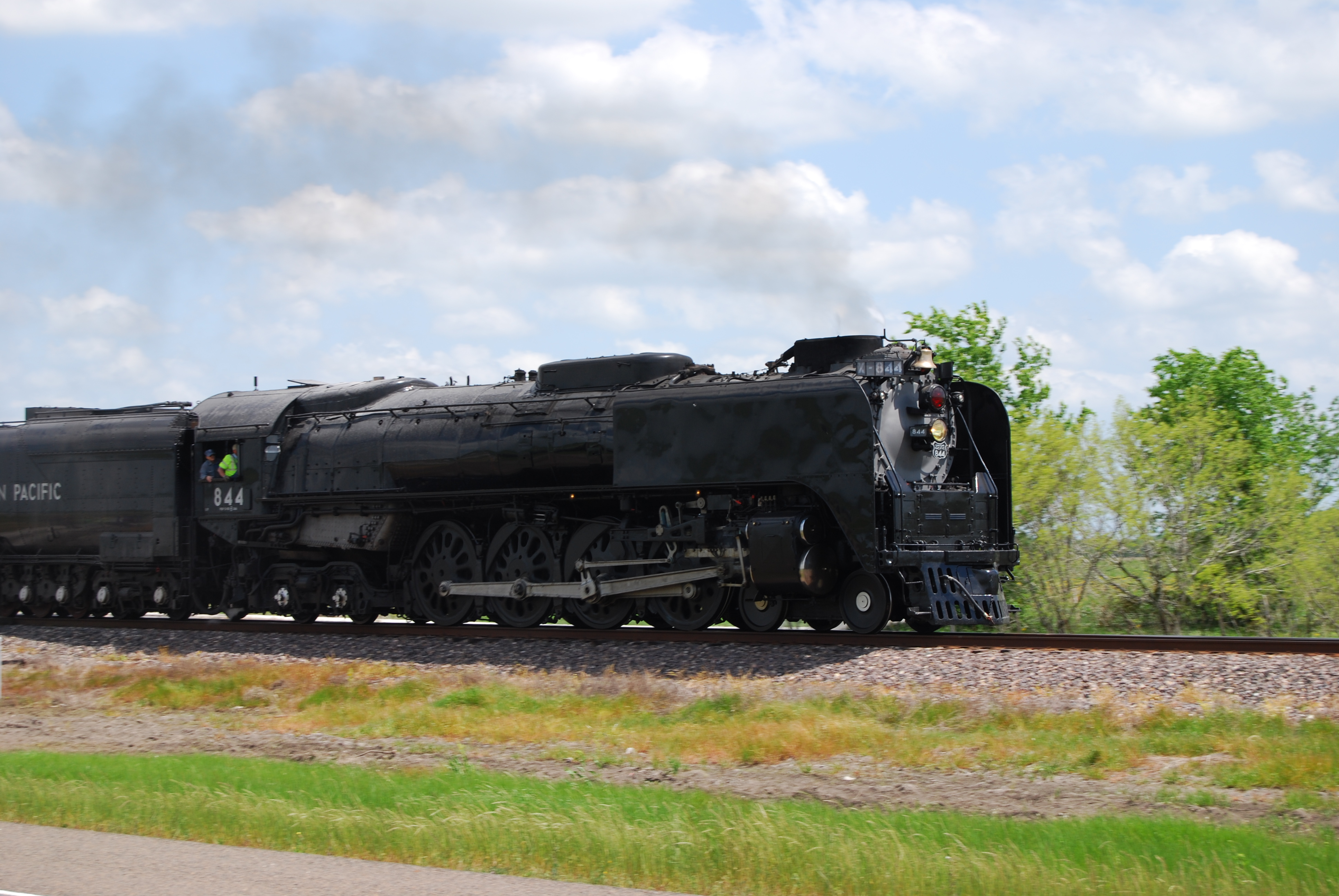 The UP 844 south of Kosse, Texas, April 10, 2010. Nikon D40x w/ AF-S Nikkor 18-55mm.